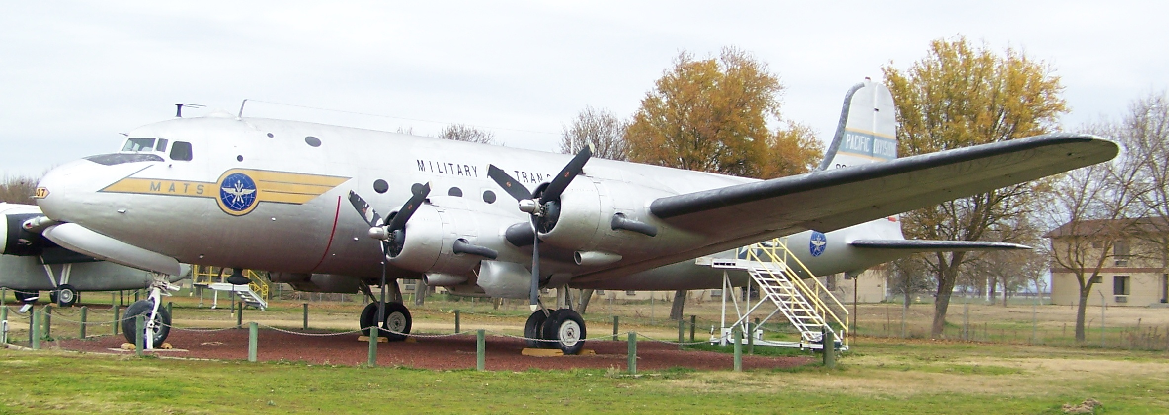 A Douglas R5D-4 Skymaster on display at the Castle Air Museum in Atwater, California.